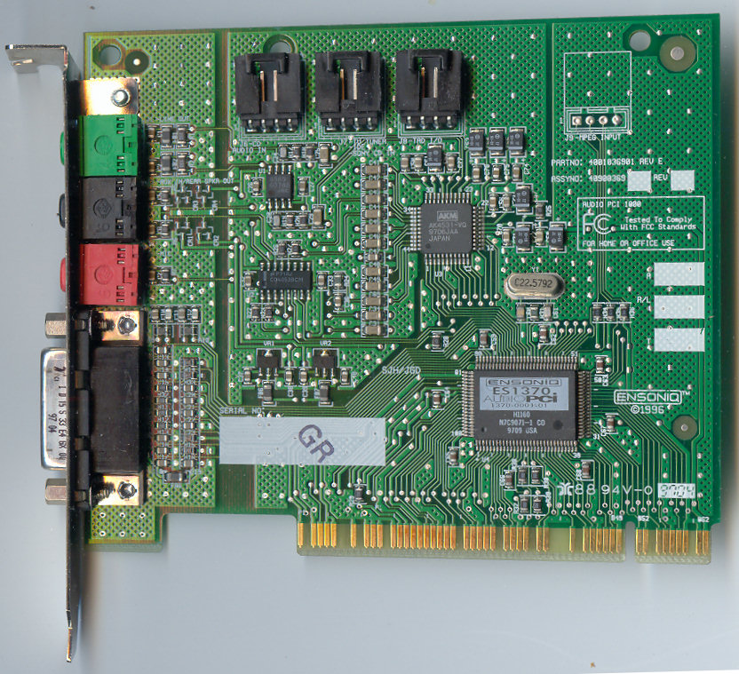 Ensoniq ES1370 AudioPCI. Scanned.